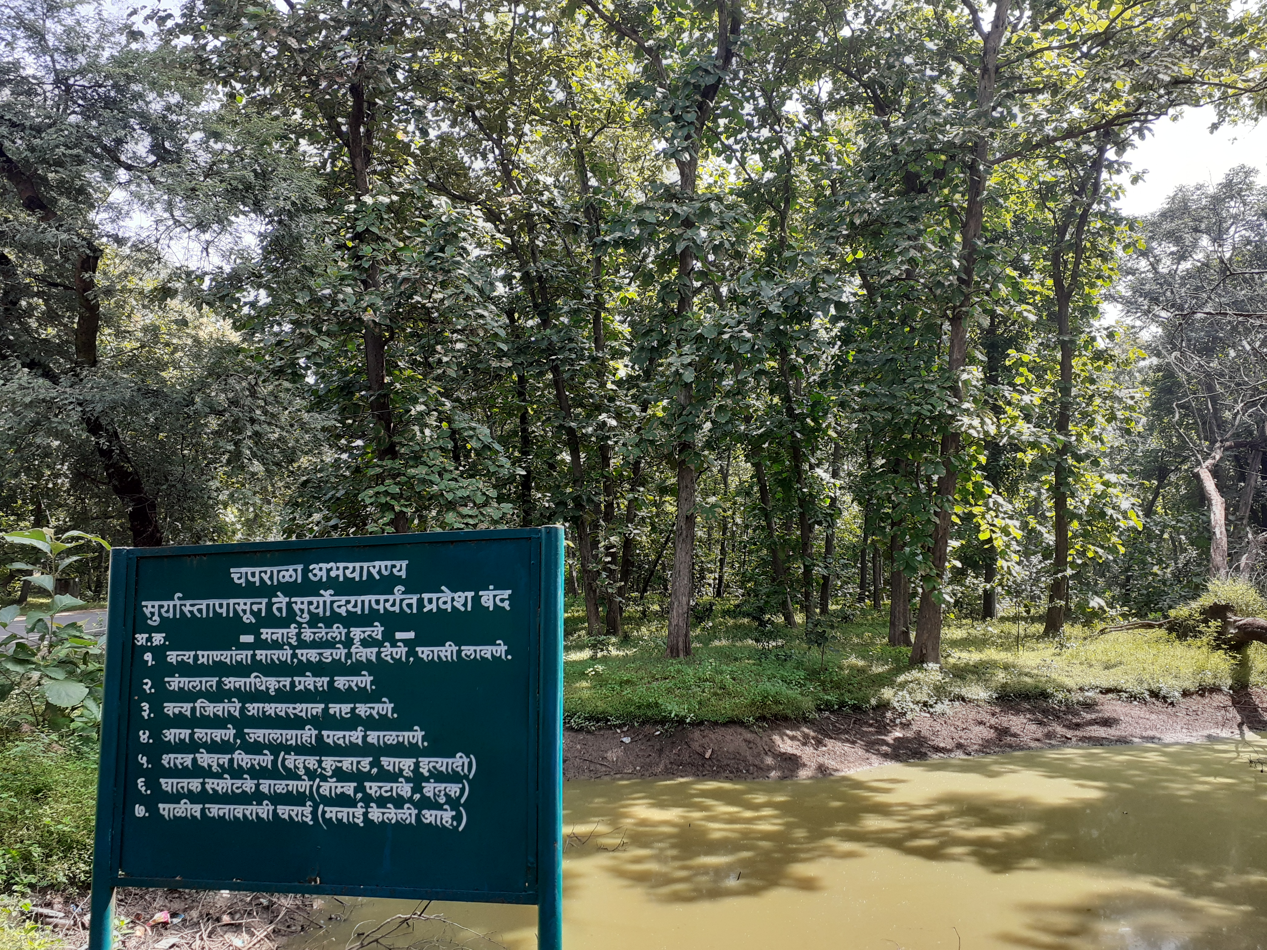 A view of Chaprala Wildlife Sanctuary.